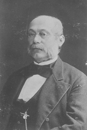 Moritz Fürstenau, German flautist and classical composer.